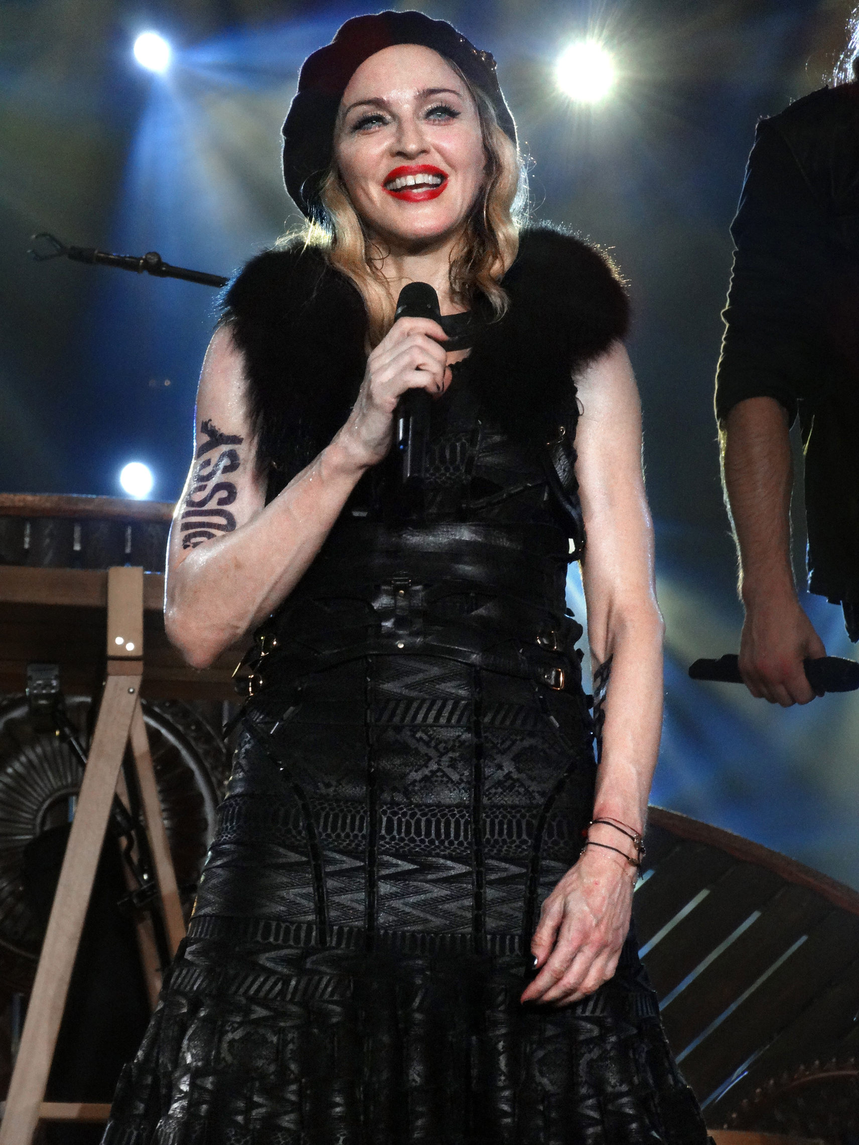 Madonna during her concert in Nice as part of her MDNA Tour on August 21, 2012.